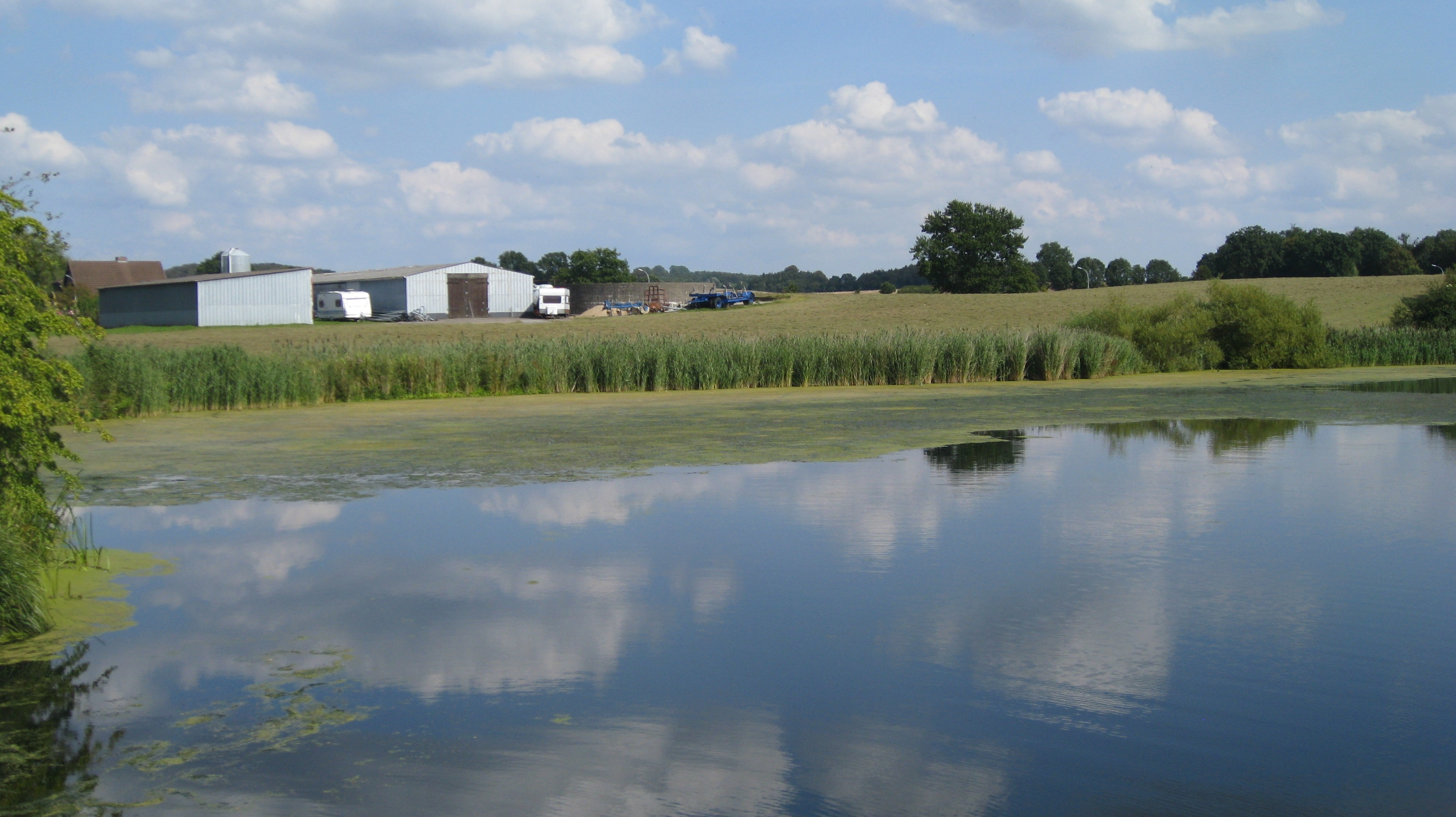 A eutrophied lake next to a farm in Schleswig-Holstein, Germany in August 2009.